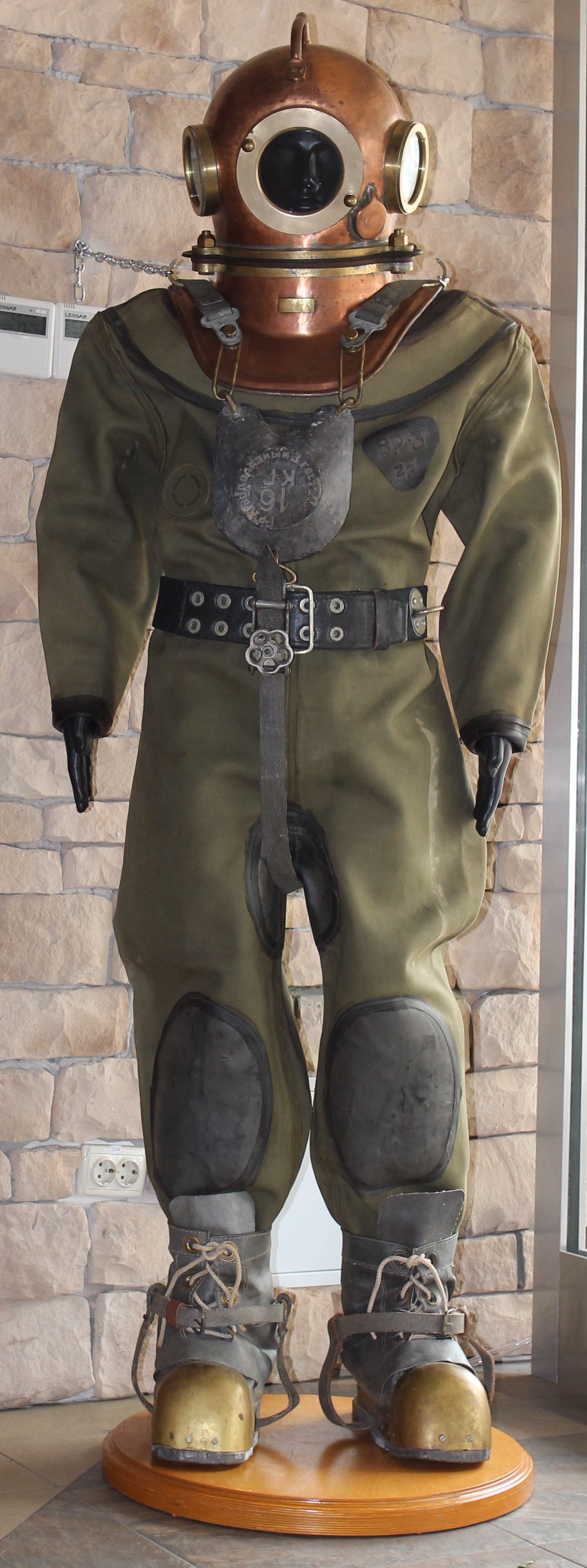 Standard diving equipment